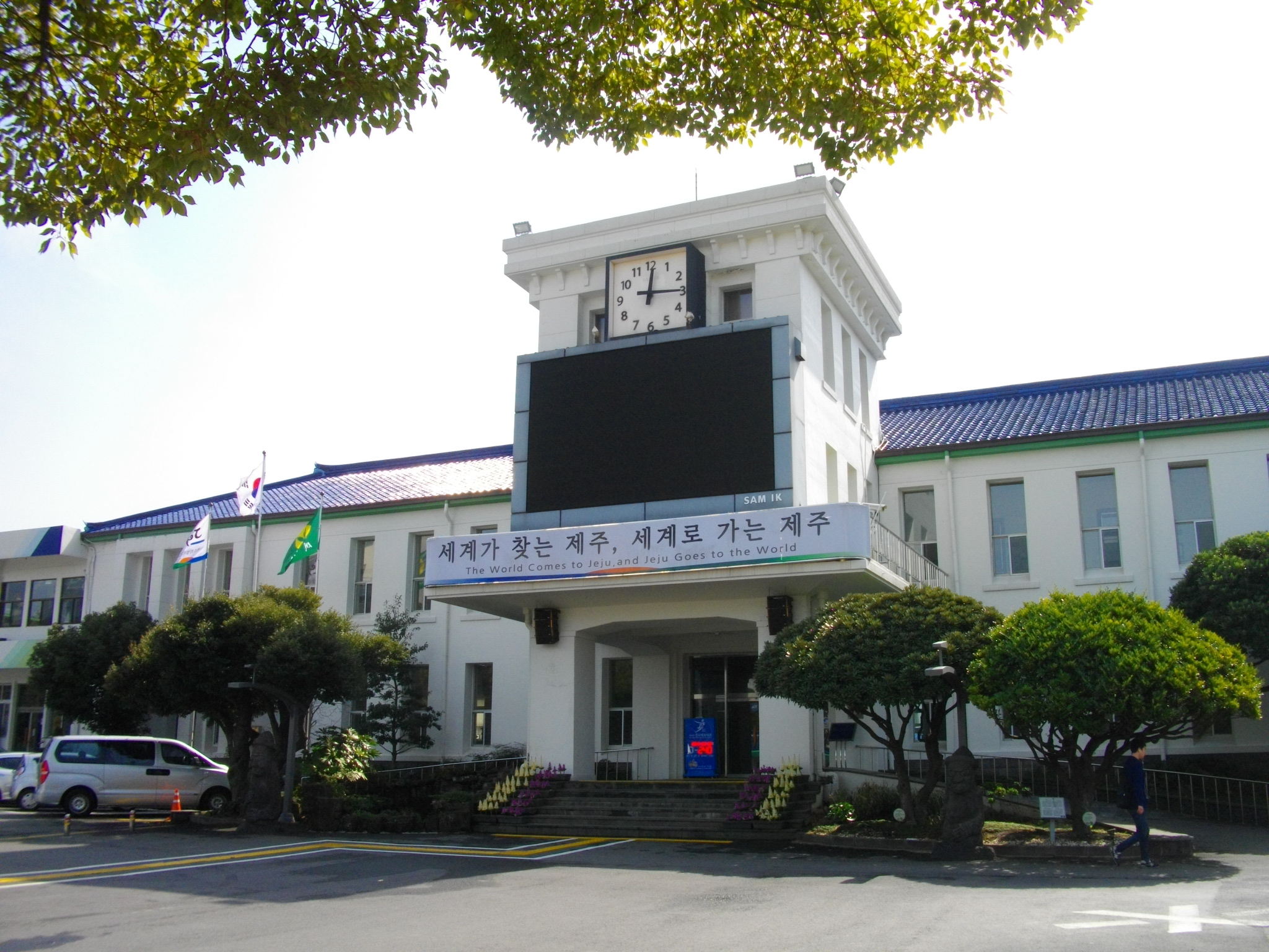 Jeju City Hall